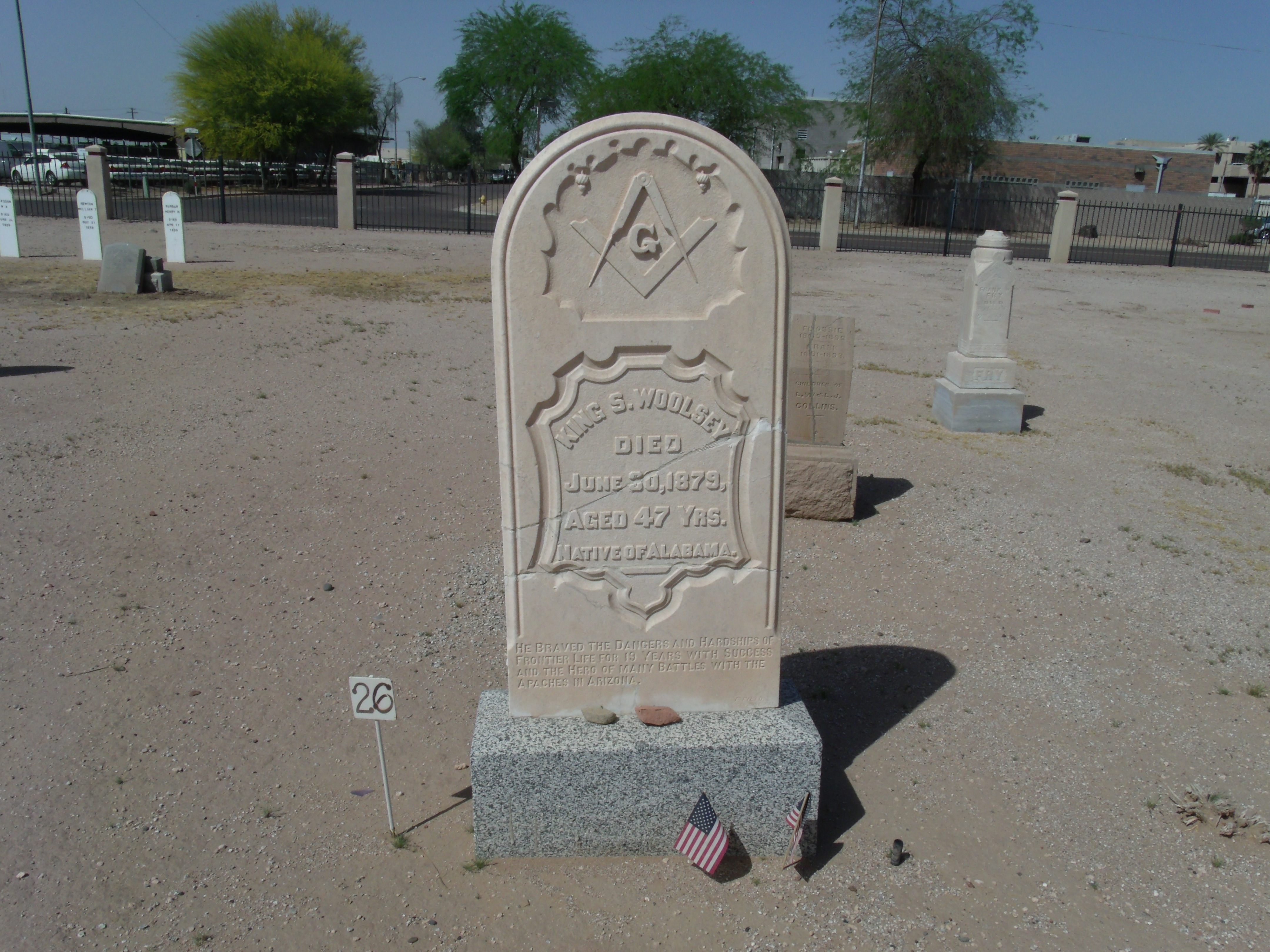 King S. Woolsey founded one of the first flour mills in the Salt River Valley. He served in various positions in the territorial legislature and opened the first ice skating rink in Phoenix. Woolsey died on June 30, 1879. The grave is located at 1317 W. Jefferson Street in the "City/Loosley Cemetery" section of Phoenix's historic Pioneer & Military Memorial Park. The Pioneer & Military Memorial Park is listed in the National Register of Historic Places, reference #06001317.